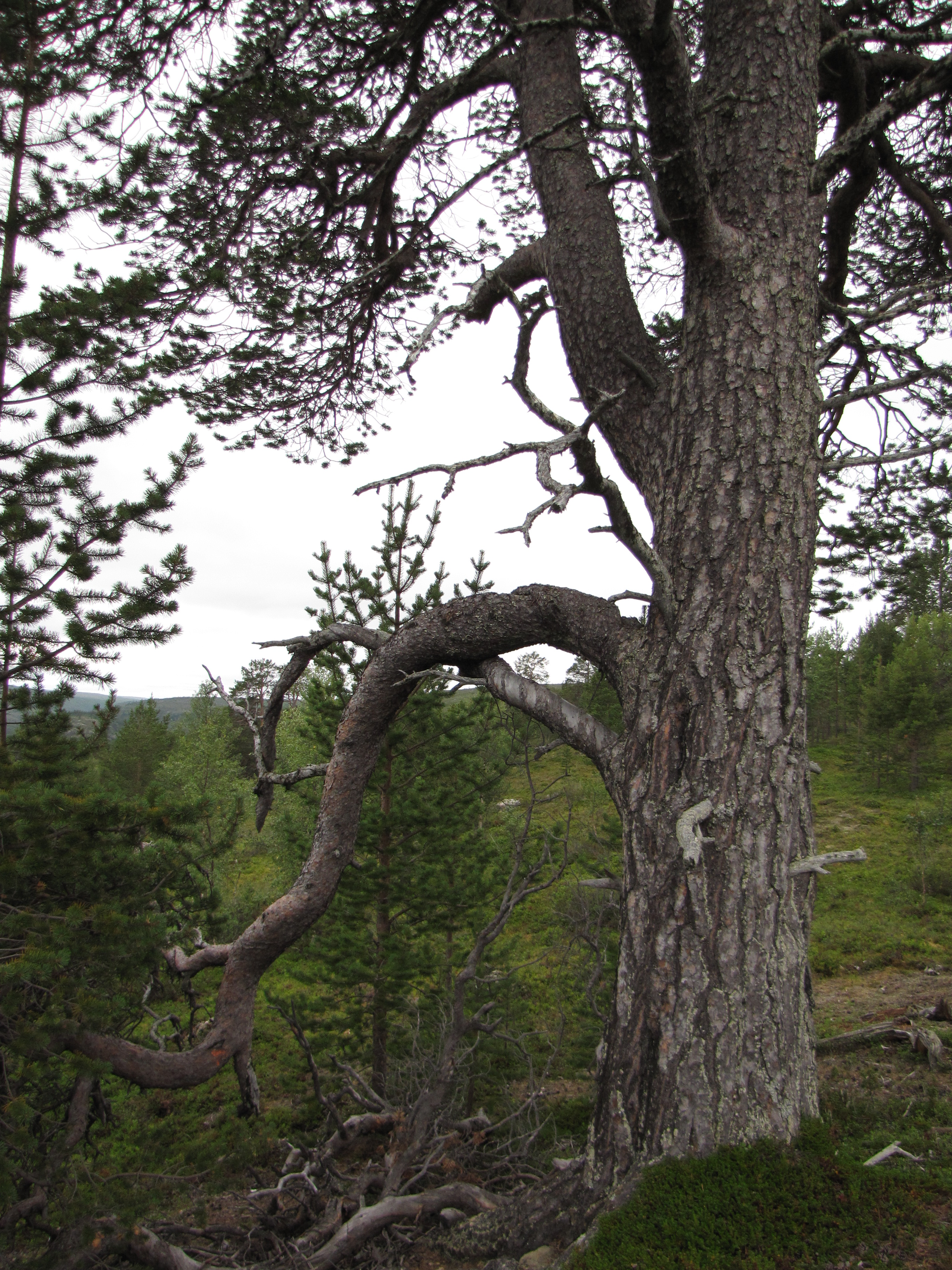 An old Scots Pine (Pinus sylvestris) amongst young ones in Kevo Strict Nature Reserve, Finland